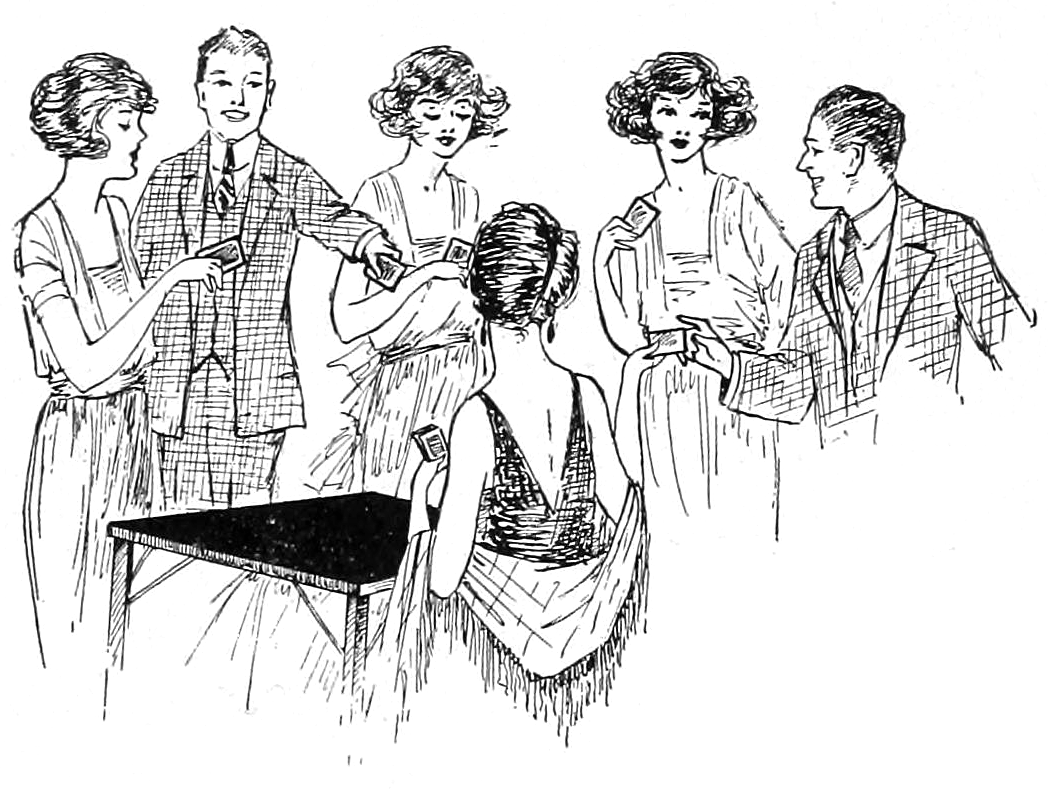 Party guests play a fortune-telling game with cards